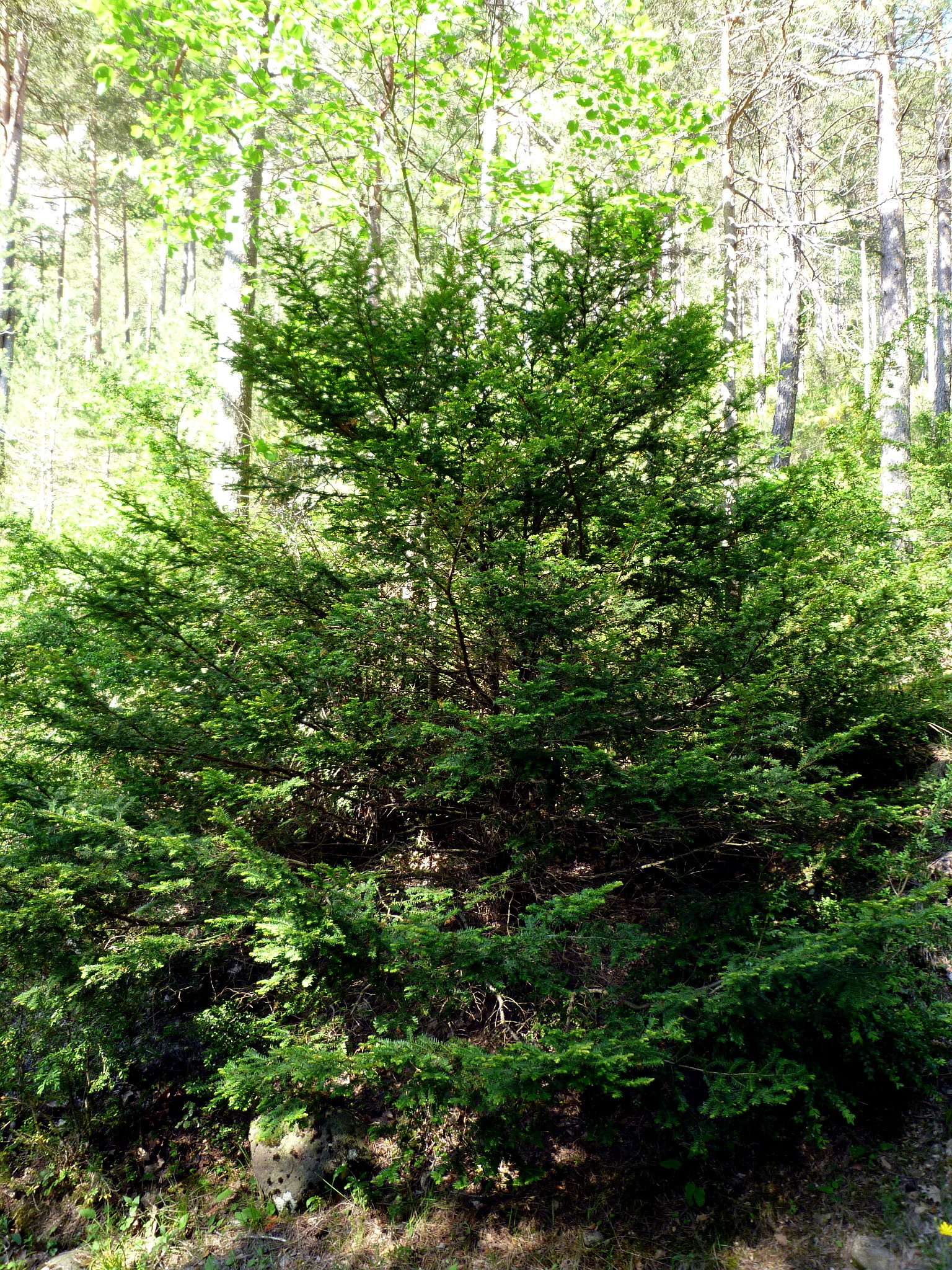 Taxus baccata. In Guixers (Solsonès-Catalunya). To 925 m. altitude